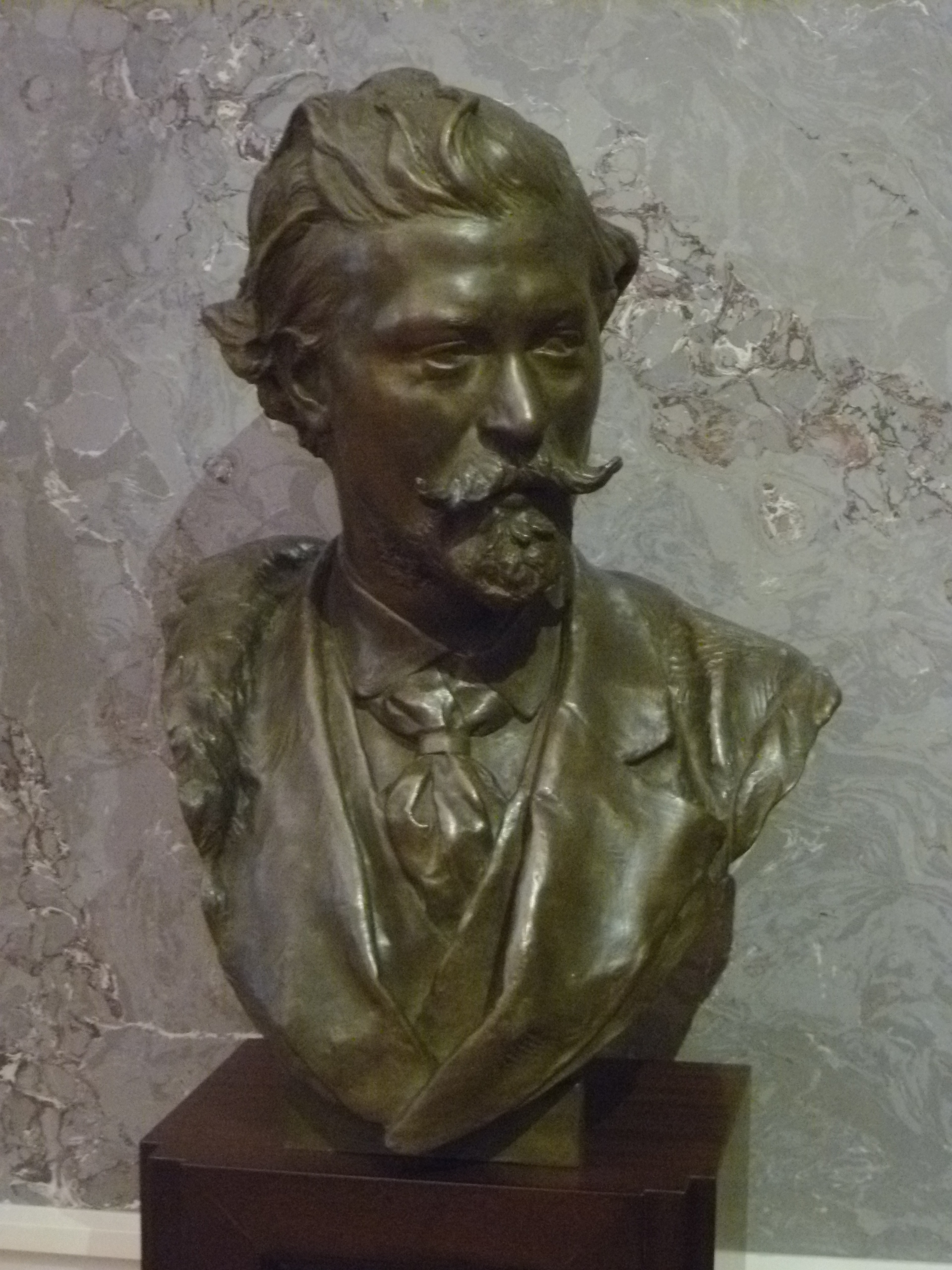 "Bust of the artist Heinrich von Angeli" bronze bust by Viktor Oskar Tilgner; Art Museum Riga Bourse, Riga, Latvia